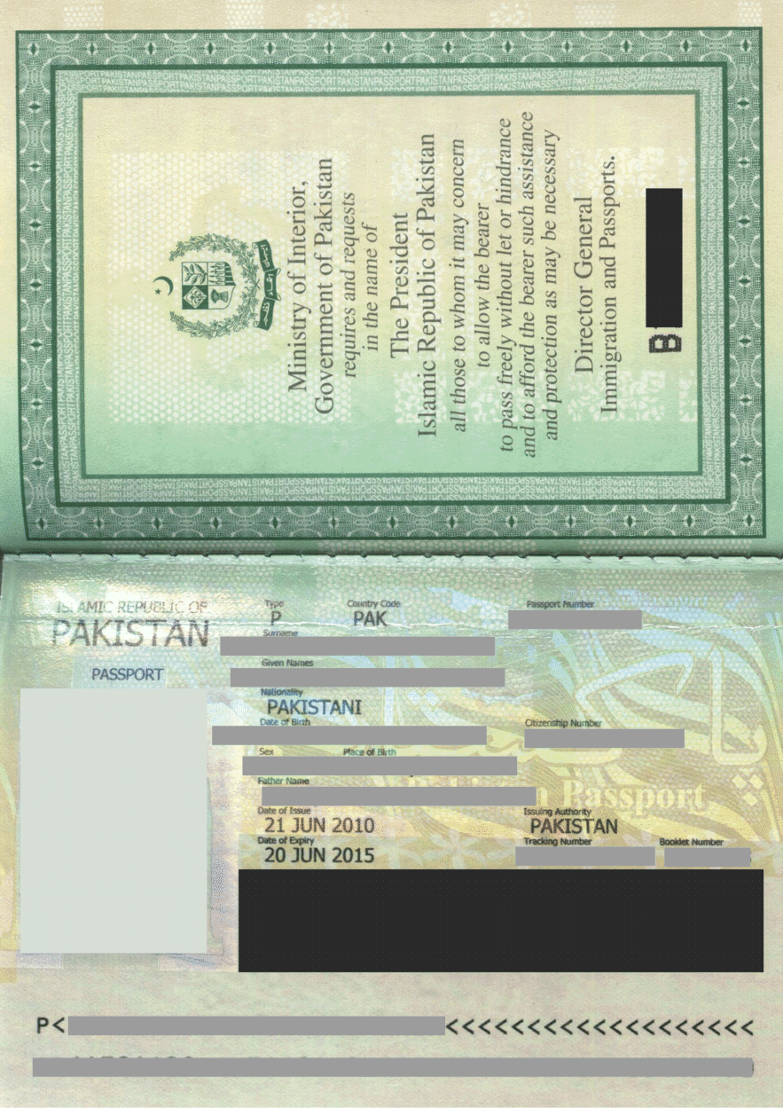 A Pakistani Passport Issued in 2010